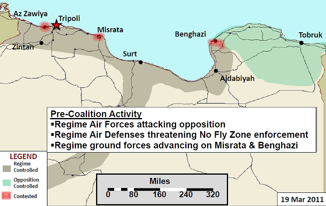 Operation Odyssey Dawn in Libya 2011. Libya Situation as of 19 March 2011. US Vice Admiral Bill Gortney, Director of The Joint Staff: “Now, this slide shows the disposition of forces prior to coalition intervention on Saturday afternoon Eastern Standard Time. As you can see, the opposition was isolated and under regime attack in Zawiyah, Misrata and Benghazi; and the regime was pressing its advantage in heavy weapons and ground-attack aircraft to move into Benghazi, not only to recapture the city but also to remove the opposition’s transitional council. Despite the subsequent declarations of ceasefire by Gadhafi on Monday and Tuesday, regime forces secured Zawiyah, continued attacks against Misrata and initiated attacks against the people in -- people in Zentan”.